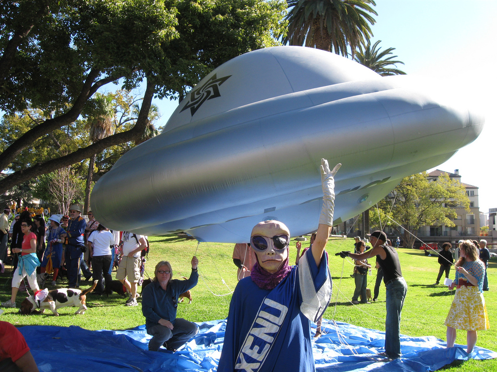 Individual in a Xenu costume, standing next to inflatable float by group of Raelians